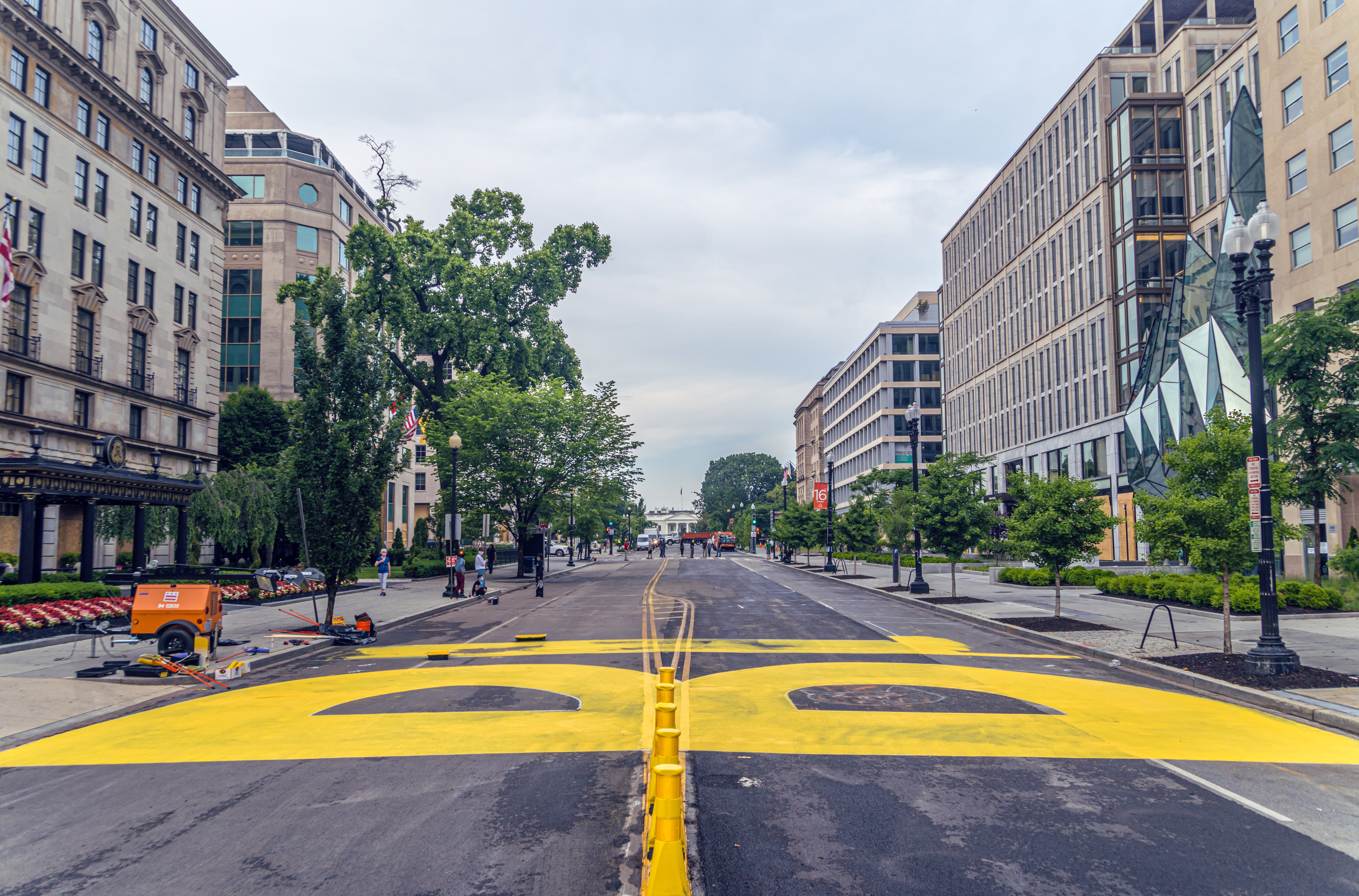 2020.06.05 Protesting the Murder of George Floyd, Washington